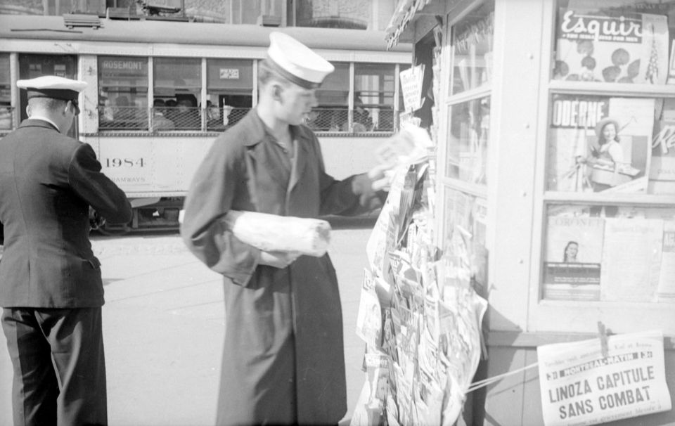 A sailor buys a newspaper in a newspaper kiosk of Rosemont in Montreal. A copy of the Montreal-Matin newspaper headline of "Linoza surrendered without a fight." In the background, we see a Rosemont tram.